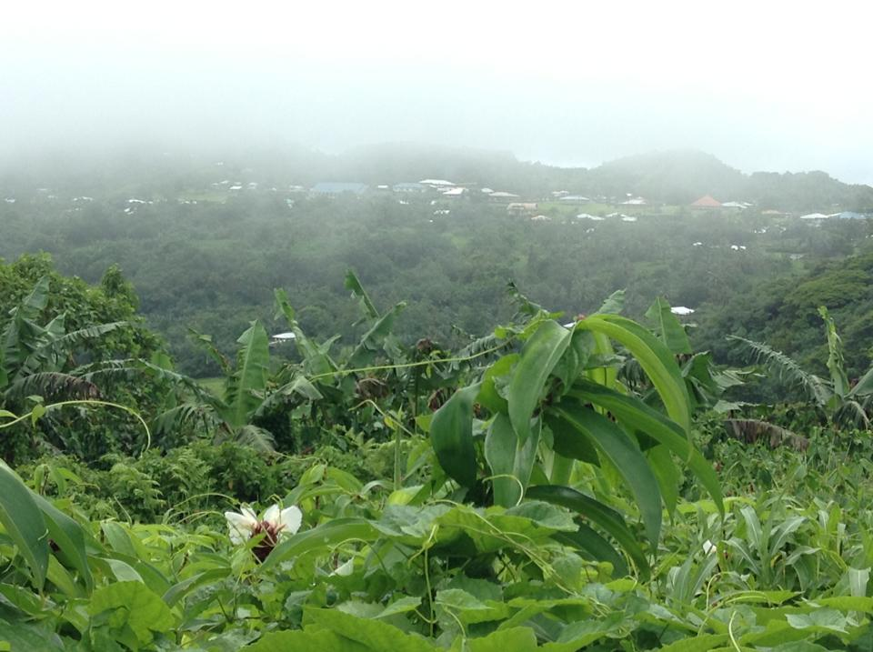 This village is on top of the mountain which it flat land. This village is call Puaolele and Kionasina